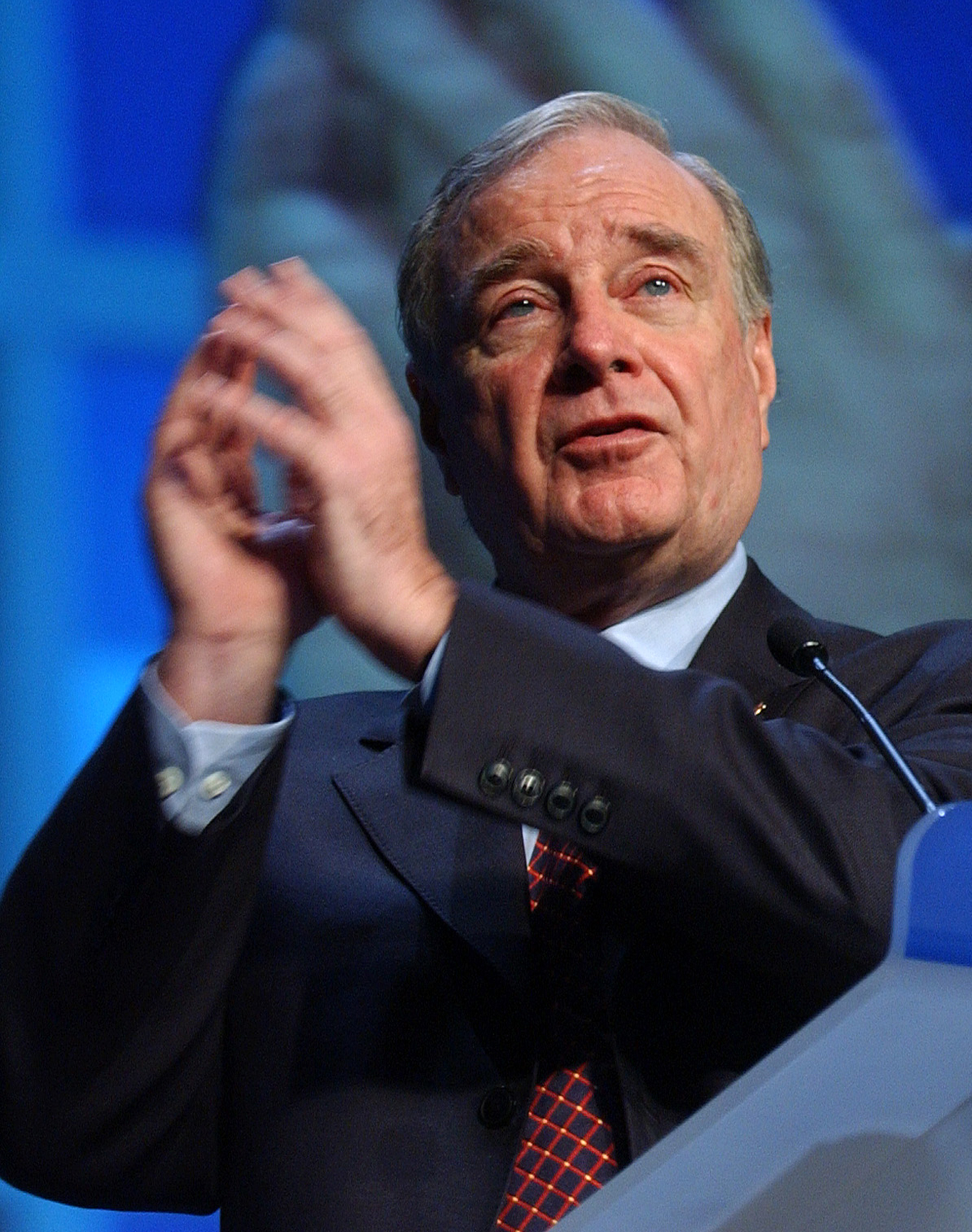 DAVOS/SWITZERLAND, 23JAN04 - Paul Martin, Prime Minister of Canada, delivering a speech during the session 'The Future of Global Interdependence' at the Annual Meeting 2004 of the World Economic Forum in Davos, Switzerland, January 23, 2004. Copyright World Economic Forum ( by Remy Steinegger